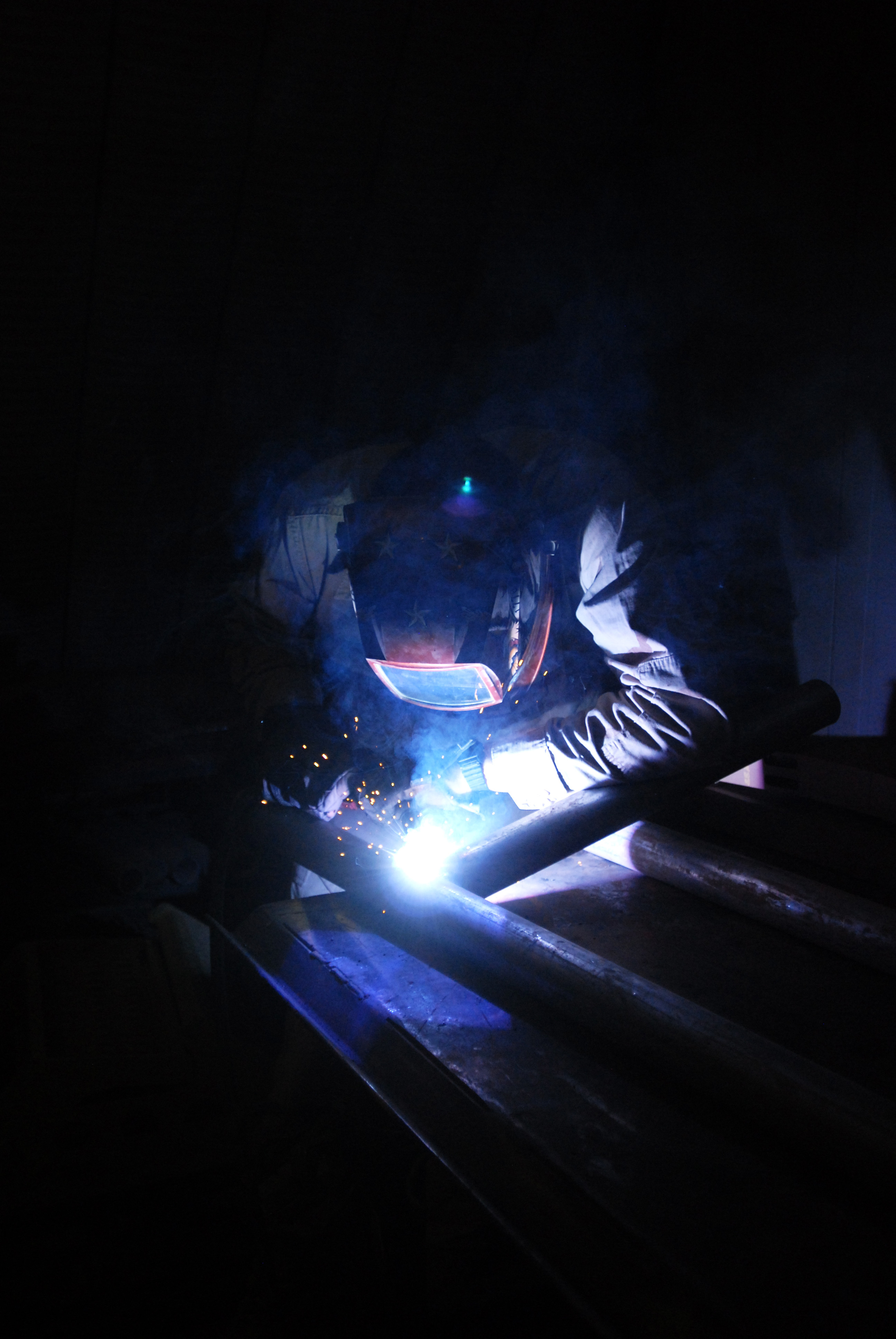 Steelworker Constructionman John J. Sanders, a Navy Seabee from Naval Mobile Construction Battalion 3, Port Hueneme, Calif., welds pieces of pipe to be used in a gate at Kandahar Air Field, Afghanistan, Dec. 28, 2010. Sanders, from Richmond, Mo., has been in the Navy two years and is on his second deployment. He is part of a Seabee detachment that handles camp maintenance for servicemembers from Special Operations Task Force – South.